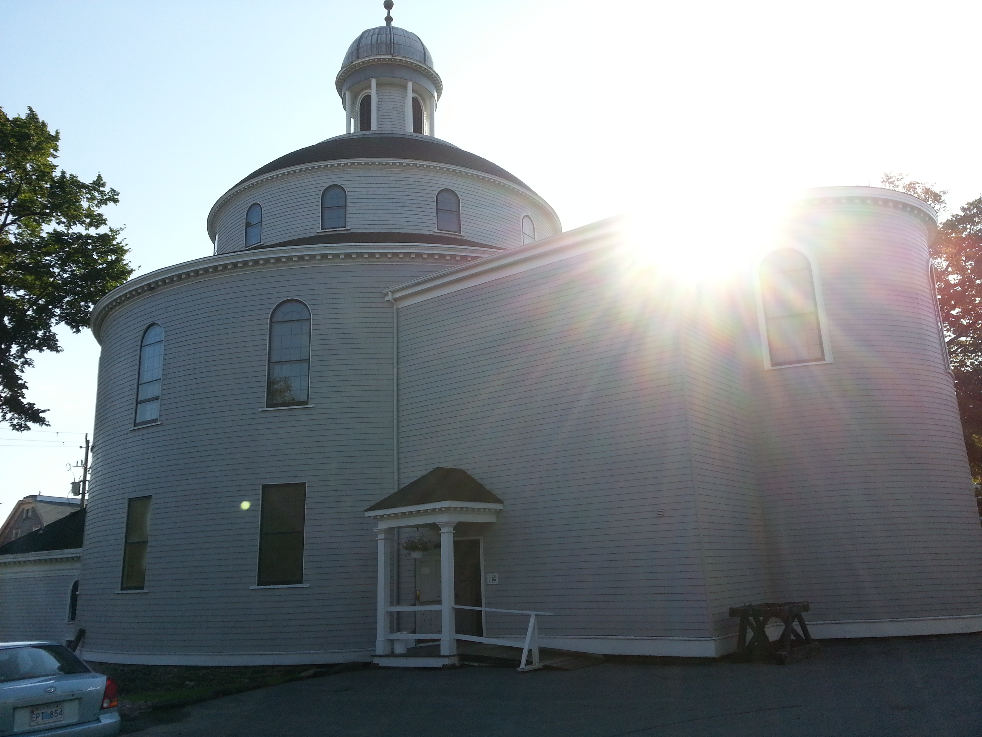 A view of the church from the Northwest in the late morning.